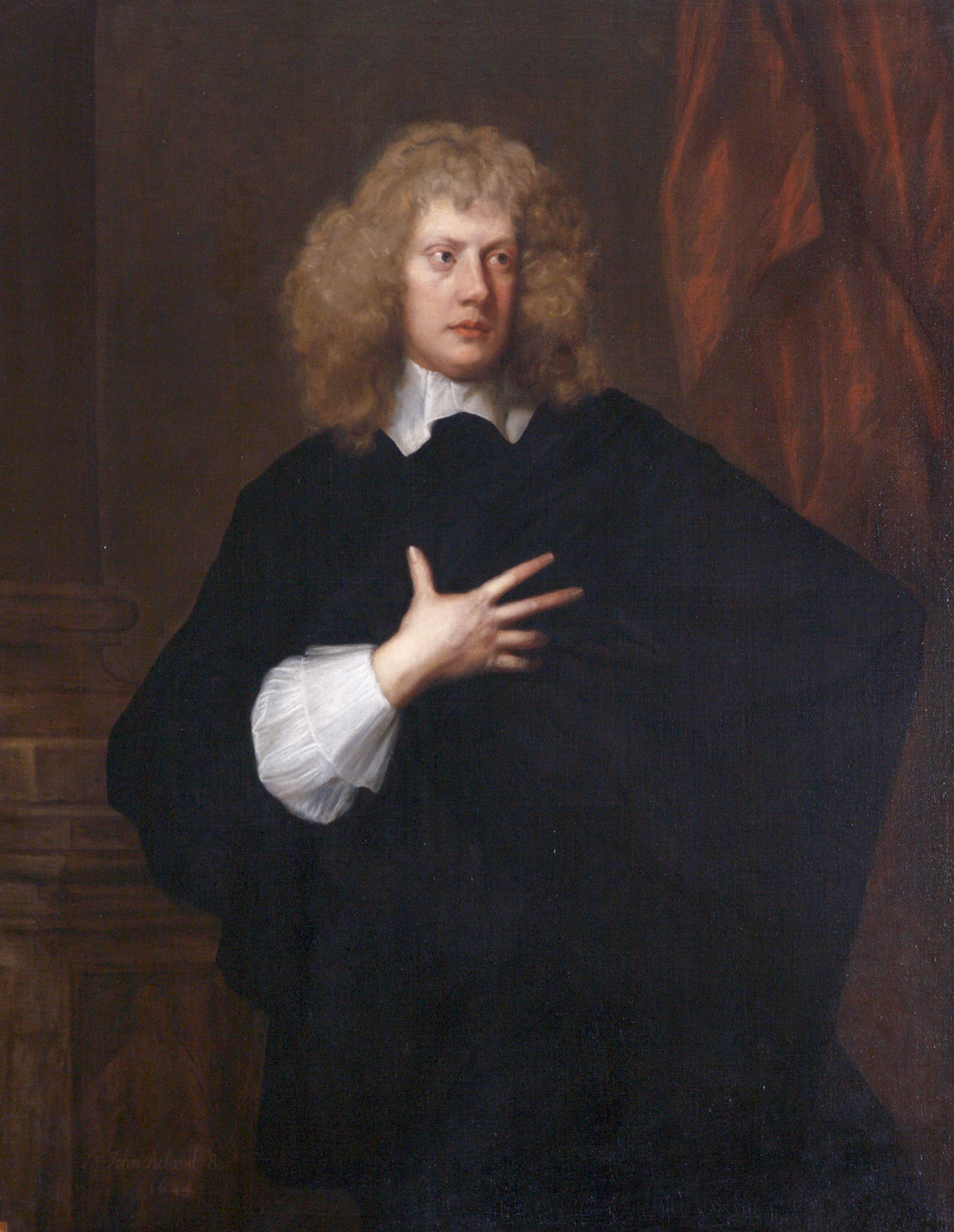 Sir John Acland, 1st Baronet (c.1591-1647). Portrait c.1644 by Robert Walker, collection of National Trust, Killerton House, Devon. Oil on canvas, 128.5 x 102 cm. Purchased in 2001 from Sir John Dyke Acland, 16th Bt.